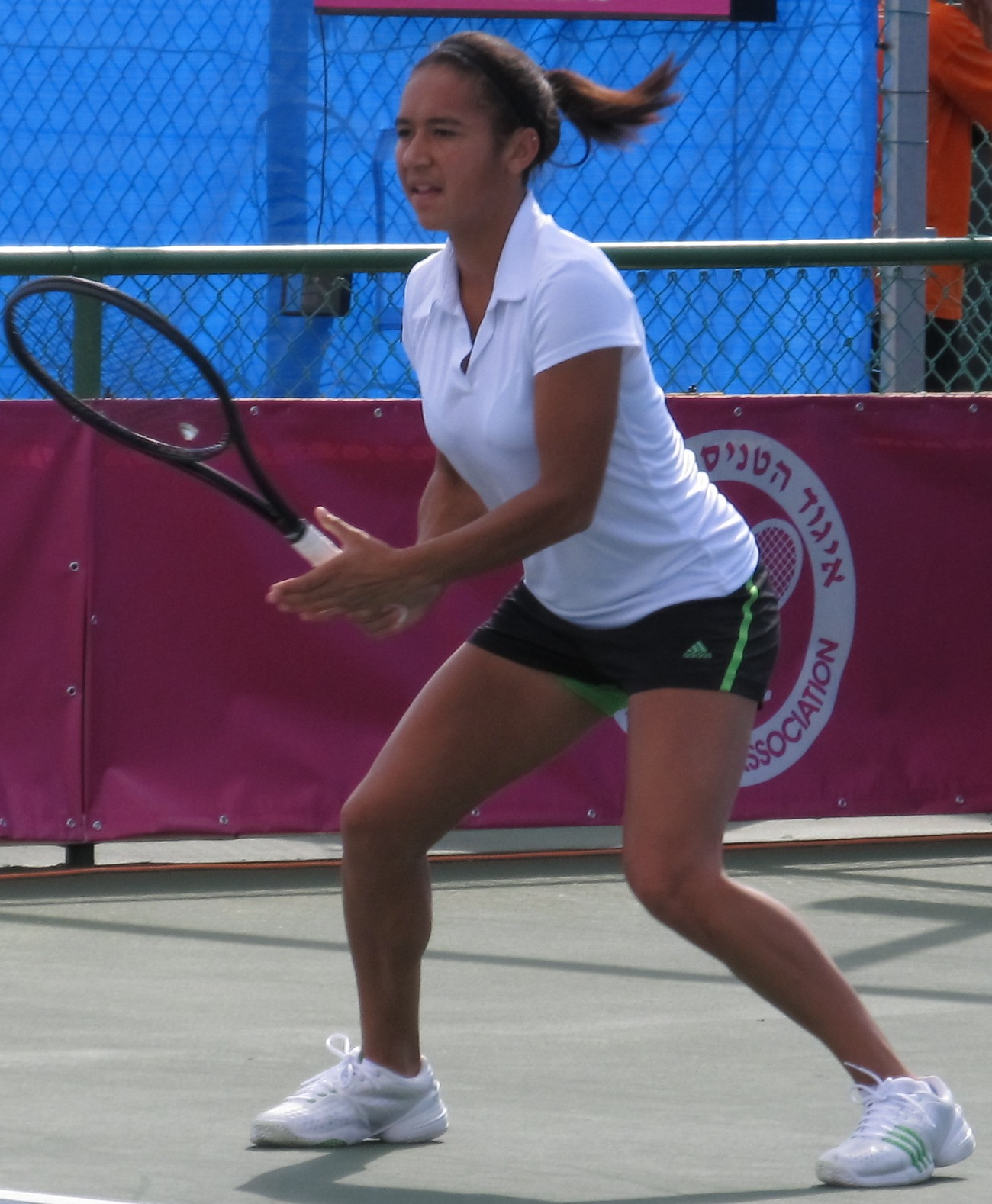 The tennis player Heather Watson of Great Britain during her match against Timea Bacsinszky of Switzerland in the 1st day of Fed Cup Group I 2011 Europe/ Africa in Eilat, Israel